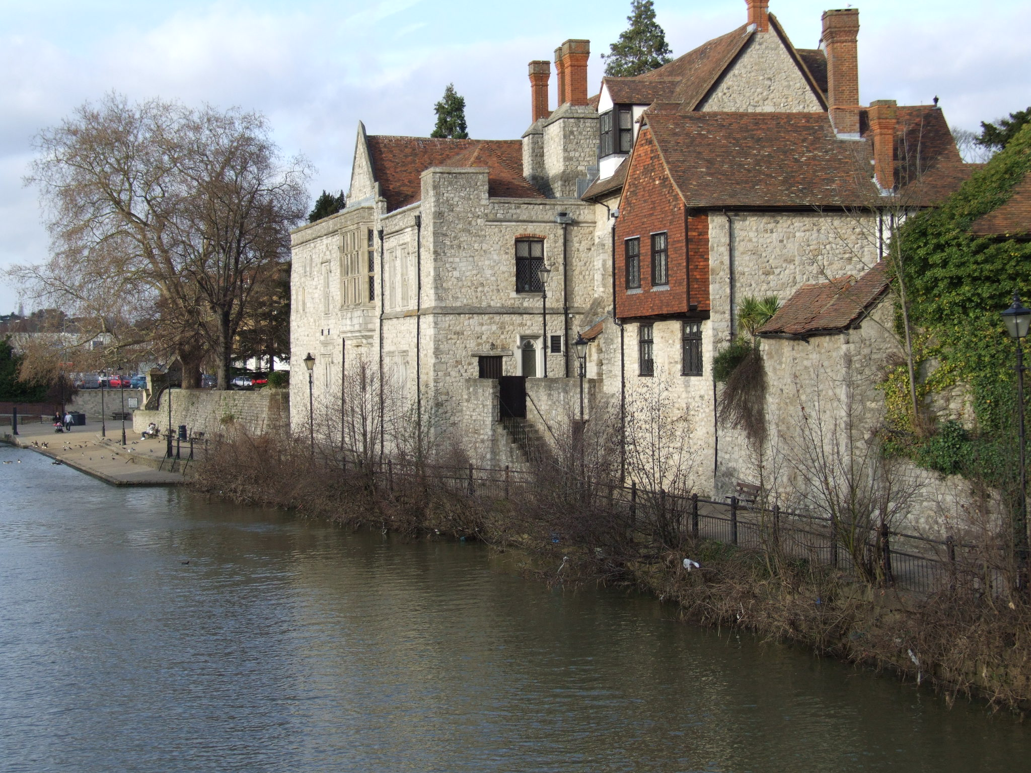 Maidstone: The Archbishops Palace from the bridge over the Medway. - OpenStreetMap(Info)